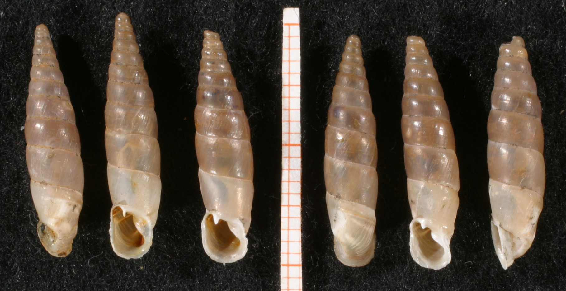 Shells of Montenegrina cattaroensis (Roßmäßler, 1835), Scale in mm. Locality: Montenegro, Lovcen pass, date: 10-09-1972.